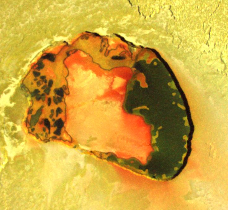 Detail of the volcanic crater named Tupan Patera on Jupiter's moon Io, vieweed from NASA's Galileo spacecraft. This image shows the results of lava interacting with sulfur-rich materials, and is only slightly enhanced with infrared light compared to what the human eye would actually see. This image of Tupan Patera, named after a Brazilian thunder god, was taken at a resolution of 135 meters (443 feet) per picture element (so, image width is 100 km).